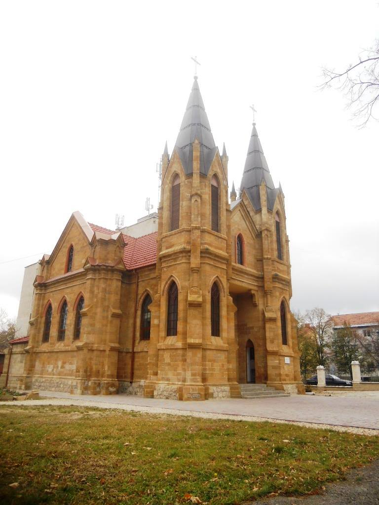 Image of the Roman Catholic church in Orhei, Republic of MoldovaRomână: Vedere a Bisericii romano-catolice din Orhei, Republica Moldova